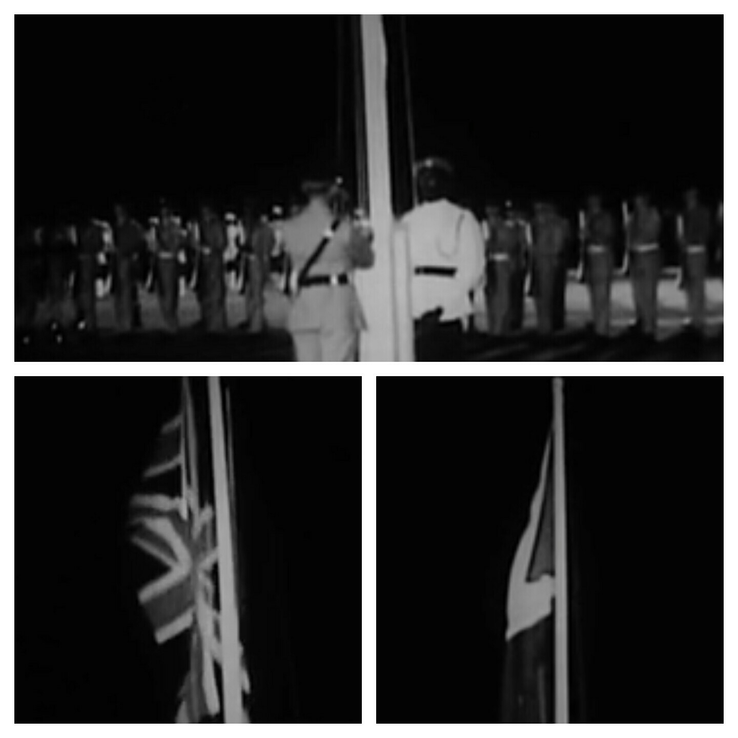 In a formal ceremony marking the Independence of Guyana, the Guard of Honor takes down the flag of the United Kingdom "Union Jack" and replace it with the flag of Guyana, which it is raised to the top of the mast.